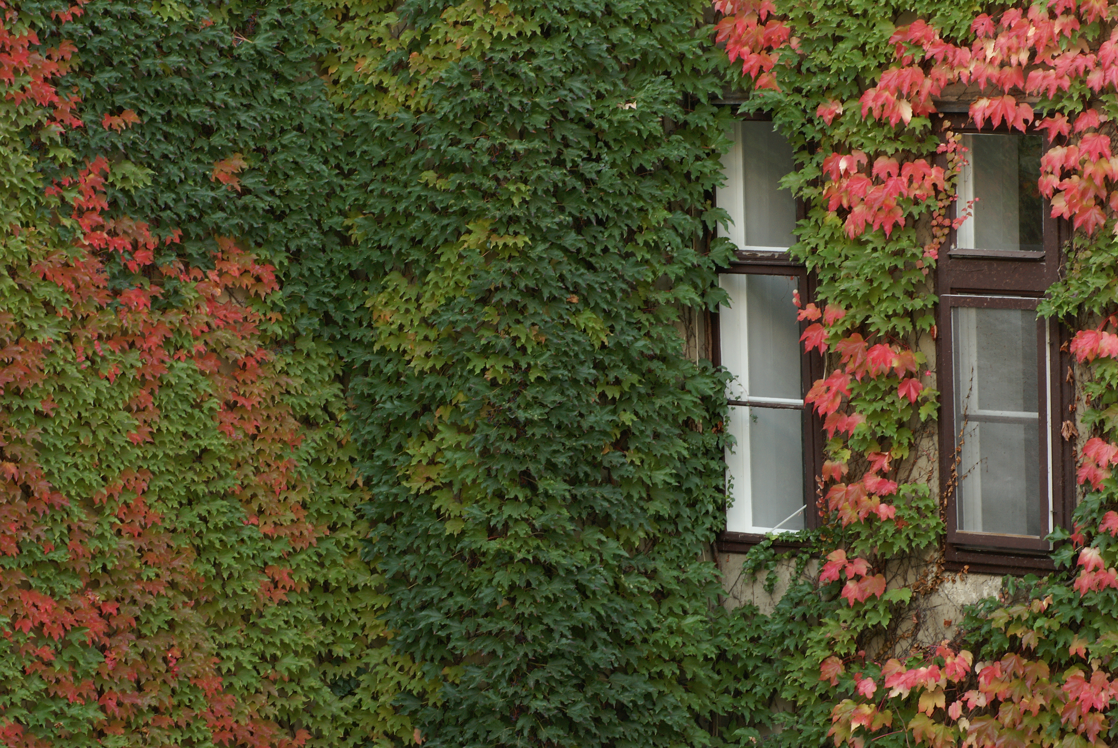 Parthenocissus tricuspidata Vitis vinifera growing on the walls of a house in Vienna, Austria. Autumn has turned some leaves red.